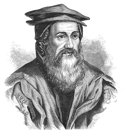 Conrad Gessner (1516-1565), Swiss naturalist.